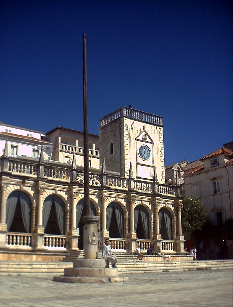 Hvar, Hvar, Croatia: Loggia and clock tower